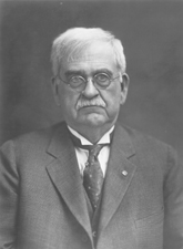 U.S. Senator Lafayette Young from Iowa, 1910-11